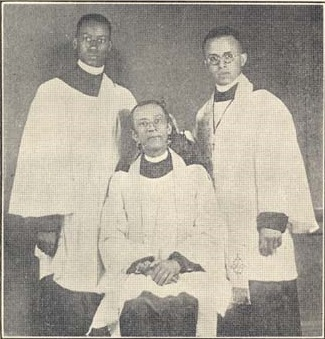 Rev. George Freeman Bragg and his ministerial sons